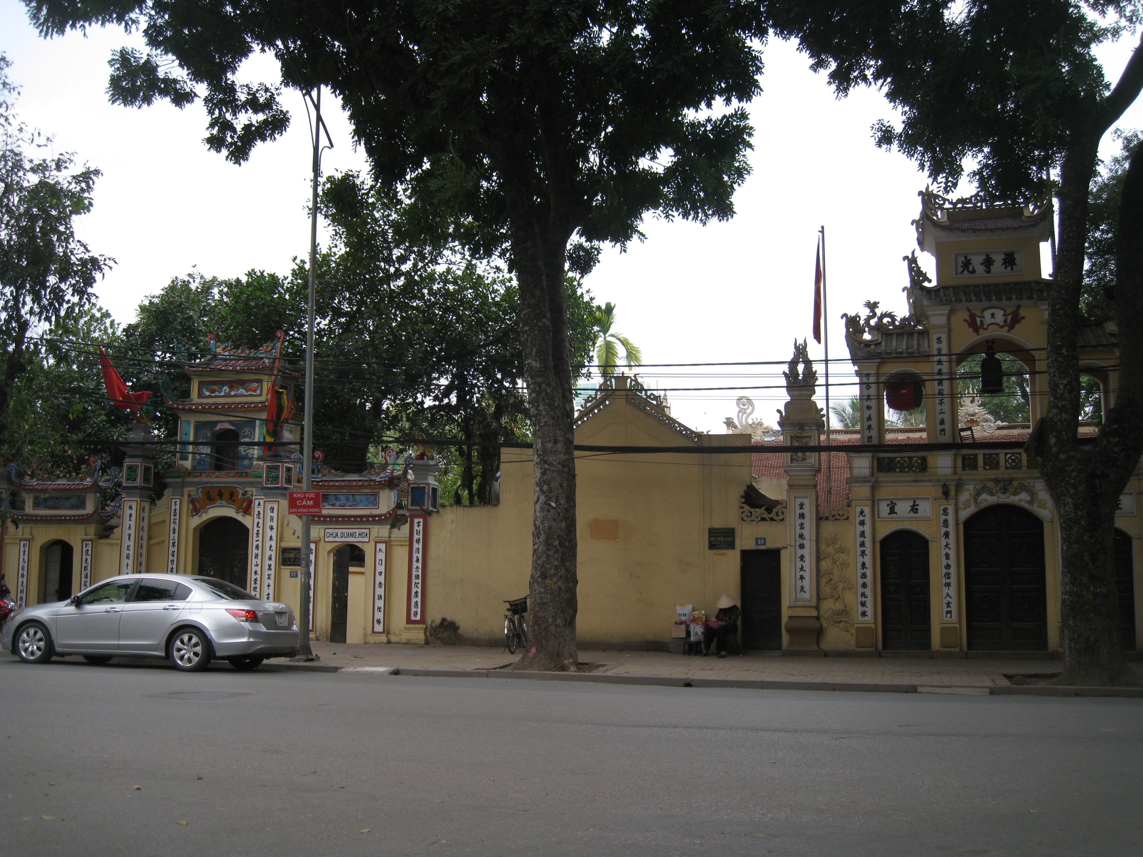 Quang Hoa and Thiền Quang Pagodas, Hanoi.